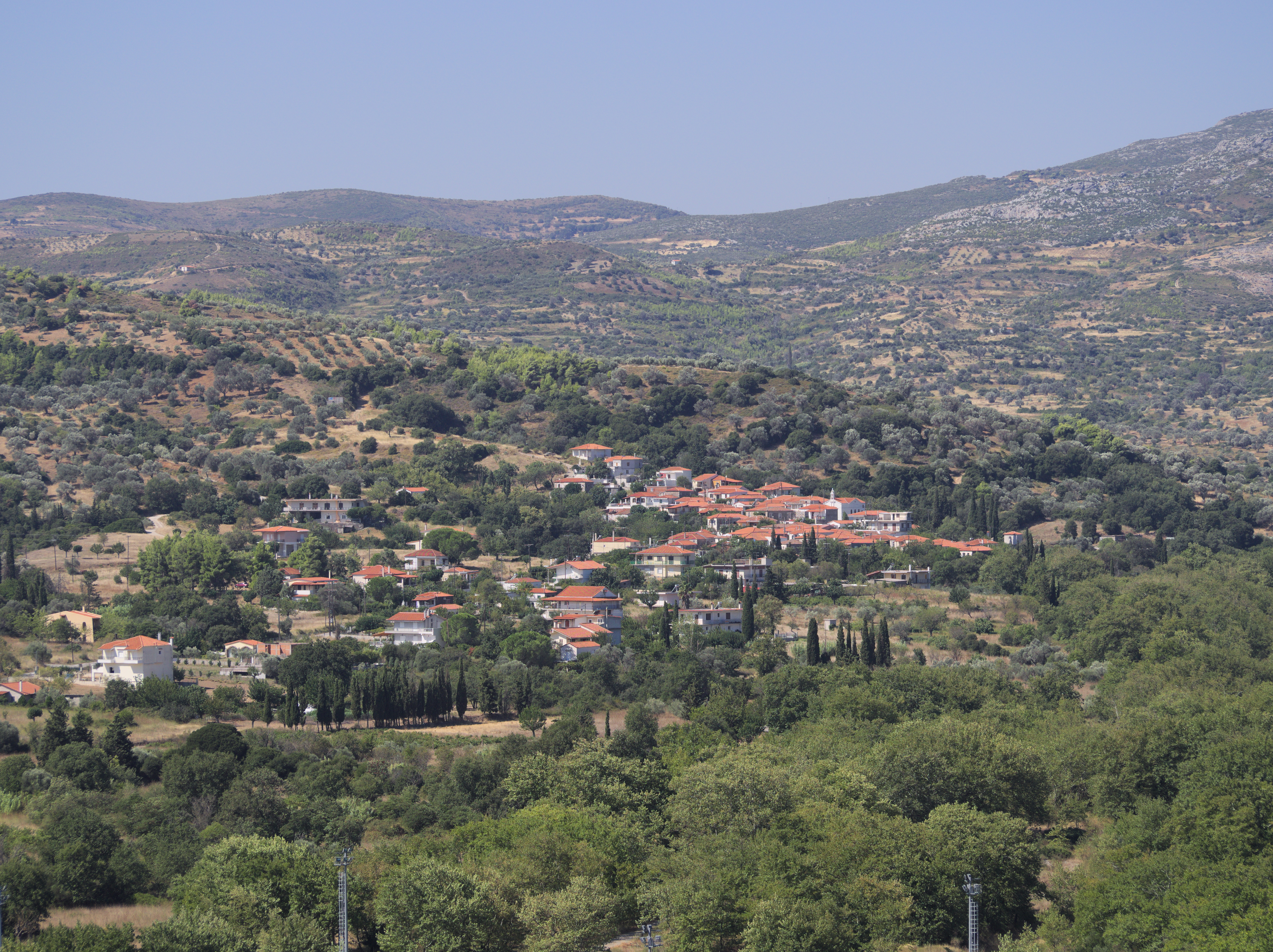 View of village Koili, Kymi-Aliveri, as seen from Ano Monodri.